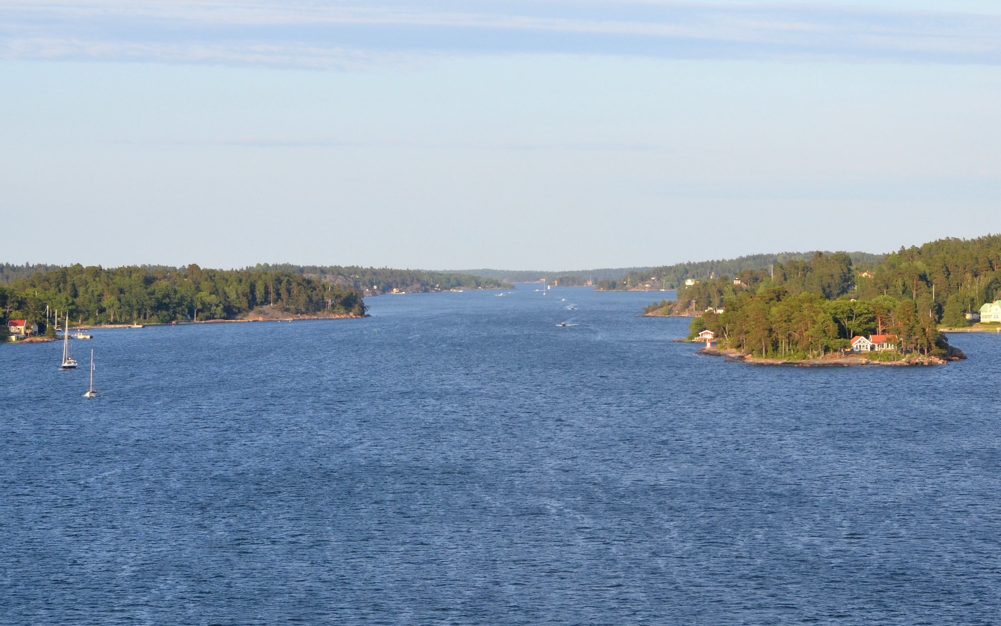 Lindalssundet from the west with the island of Stora Berteln and Västra Skägga on Värmdö to the right, and Långholmen and Sparrholmen to the left. In the distance, the sound passes between Värmdö and Vårholma on the left.